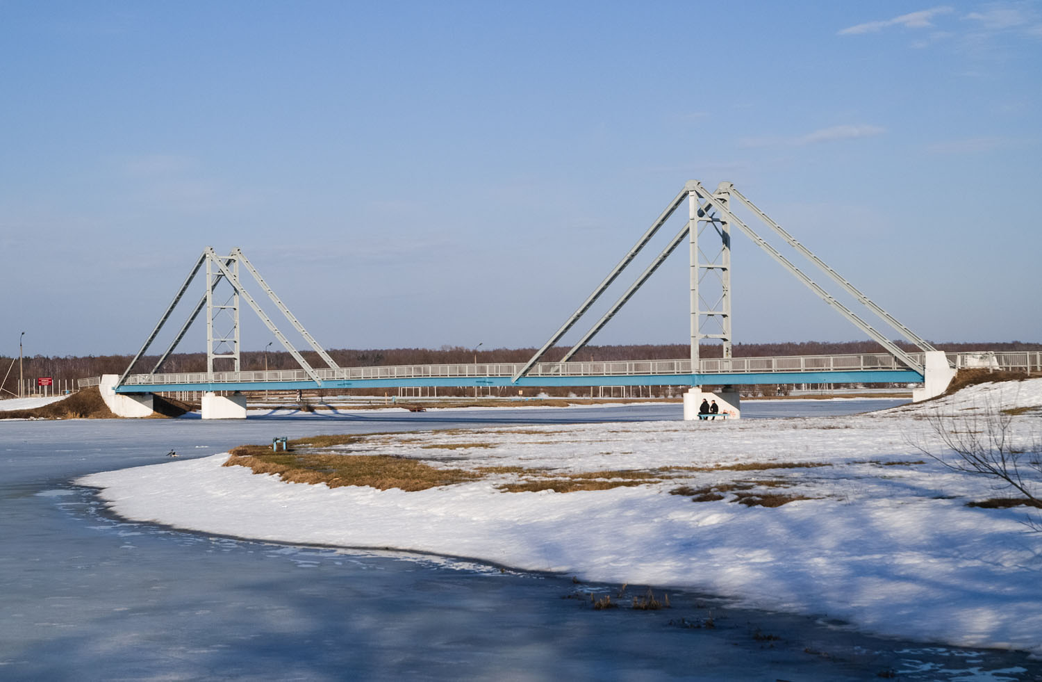 Pedestrial bridge over Lake Belskoye, Bronnitsy, Moscow Oblast